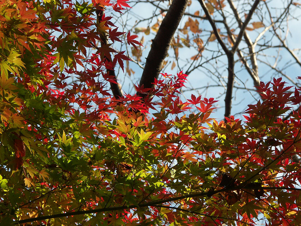 leaves turning red in autumn